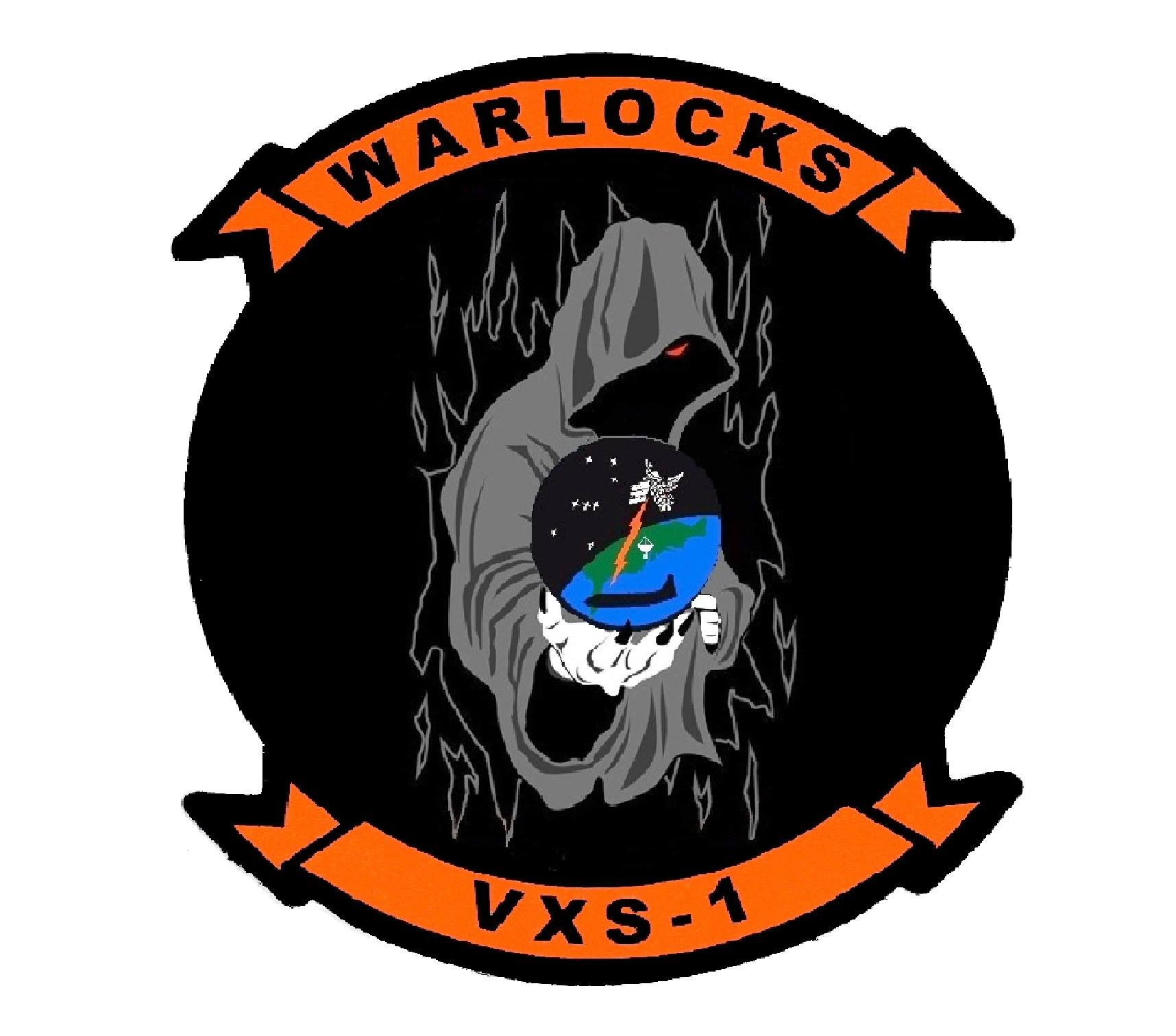 U.S. Naval research Laboratory Scientific Development Squadron ONE (VXS-1) Insignia